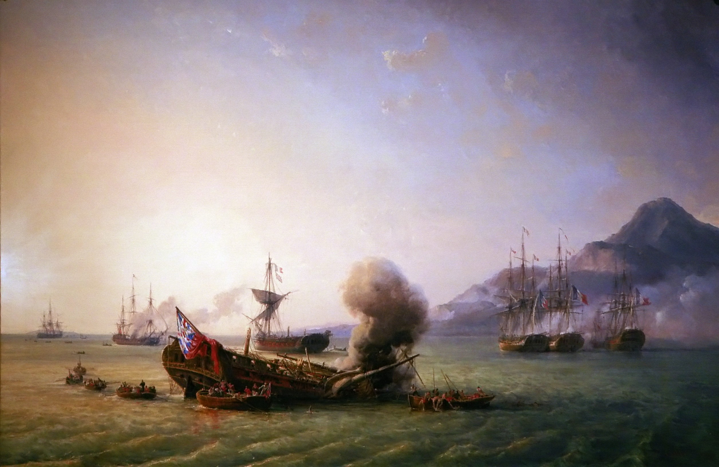 Battle of Grand Port Visible are, from left to right: HMS Iphigenia striking her colours (actually happened the next day) HMS Magicienne being scuttled by fire HMS Sirius being scuttled by fire HMS Nereide surrendered French frigate Bellone French frigate Minerve Victor (background) CeylonOil on canvas